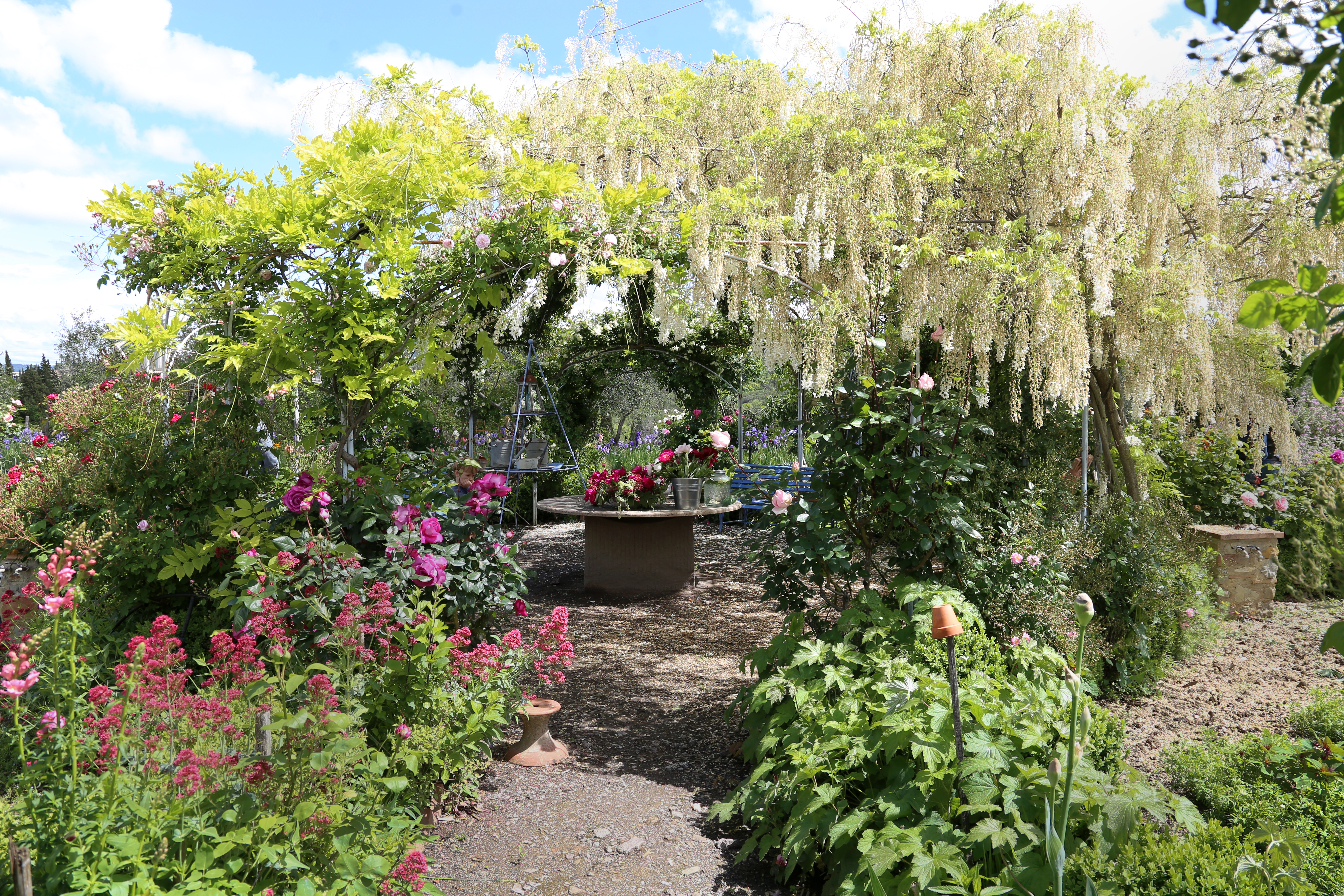 Castel Ruggero (Bagno a Ripoli) - Gardens